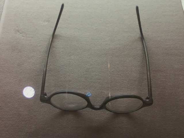 Yiyuksa's Glasses.